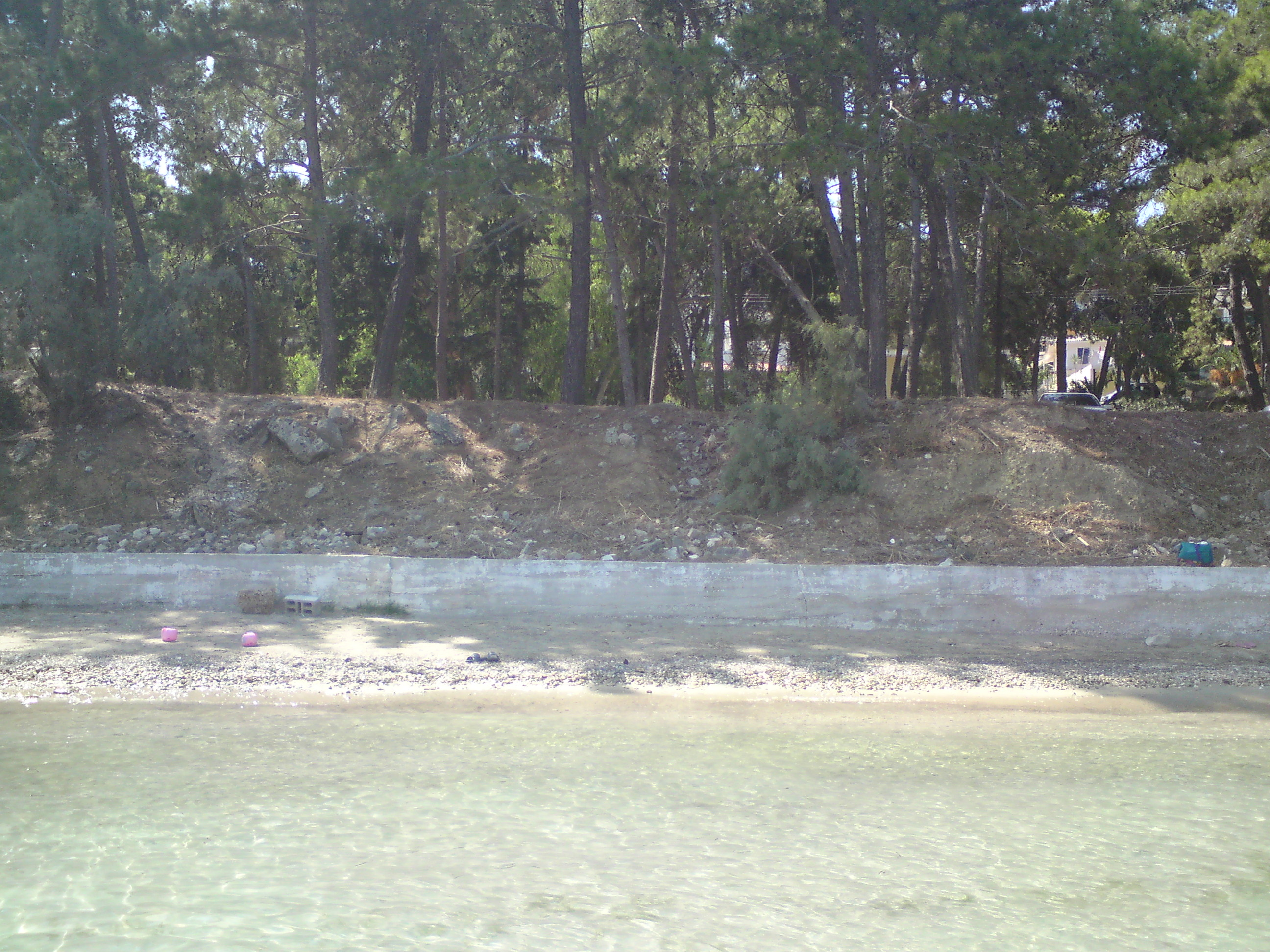 Maistrato beach in Argostoli, Kefalonia. View from the sea. The entrance to the "O SOTIR" (The Saviour) Orphanage of Kefalonia can be discerned in the background.